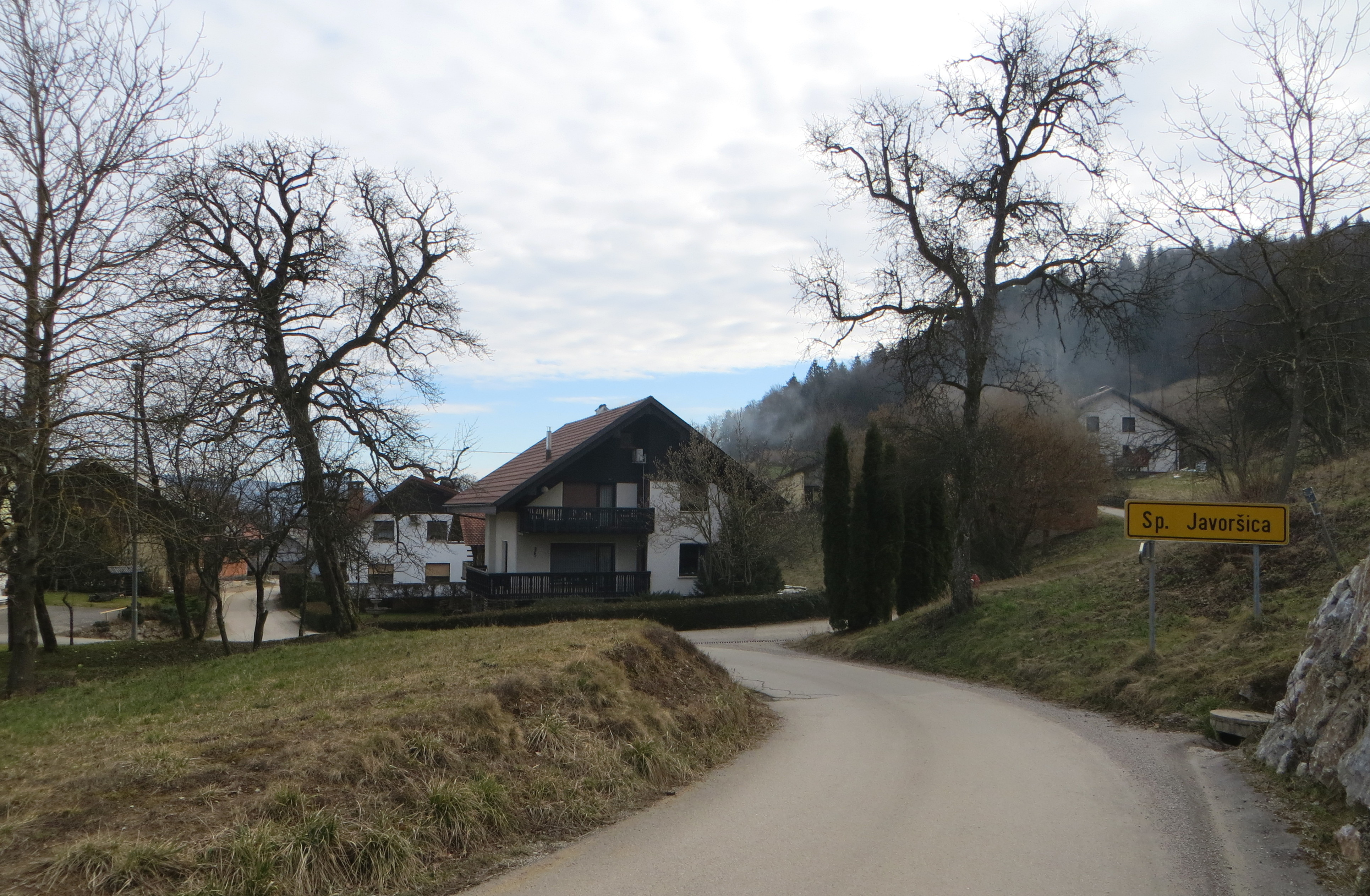 Spodnja Javoršica, Municipality of Moravče, Slovenia